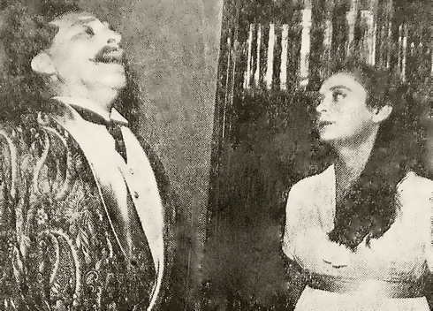 Lady of the Castle 1955 חנה מרון ויוסי ידין בהפקה המקורית של "בעלת הארמון" בתיאטרון הקאמרי 1955